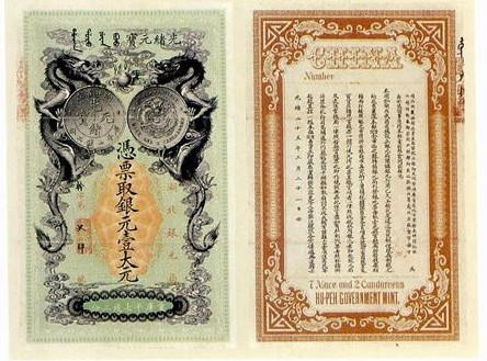 A banknote of 7 Mace and 2 Candareens issued by the Hupeh Government Mint during the Qing Dynasty.